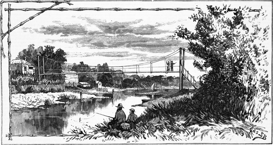 Scene on Kananook Creek in Frankston in 1886 by Charles Samuel Bennett (print, wood engraving). Published in the Illustrated Australian on 16 October 1886.